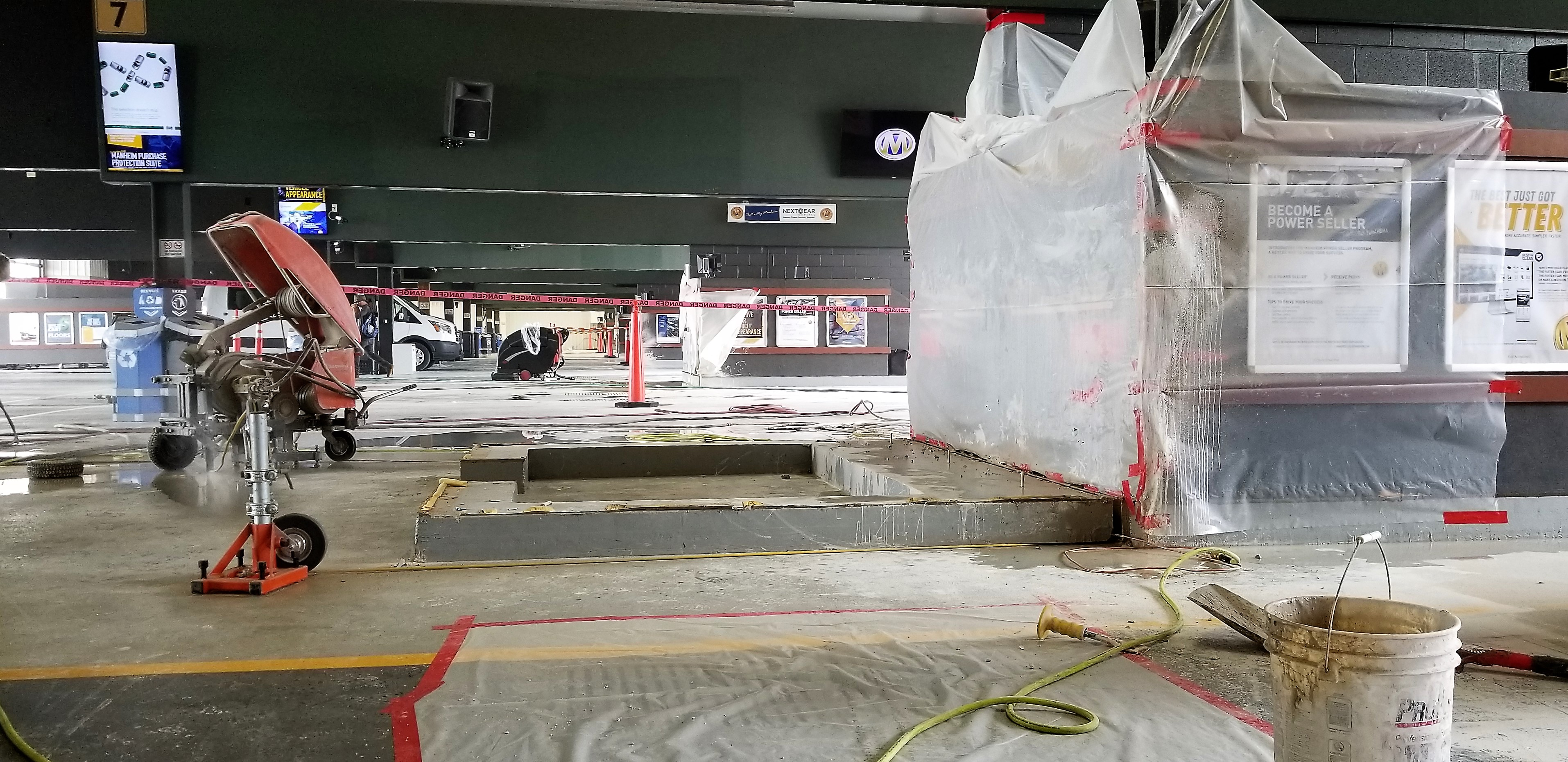 Wire Saw being used to remove concrete pad flush with surrounding. Cut can be seen bottom-right of pad. Work performed by Midwest Concrete Cutting, Inc.